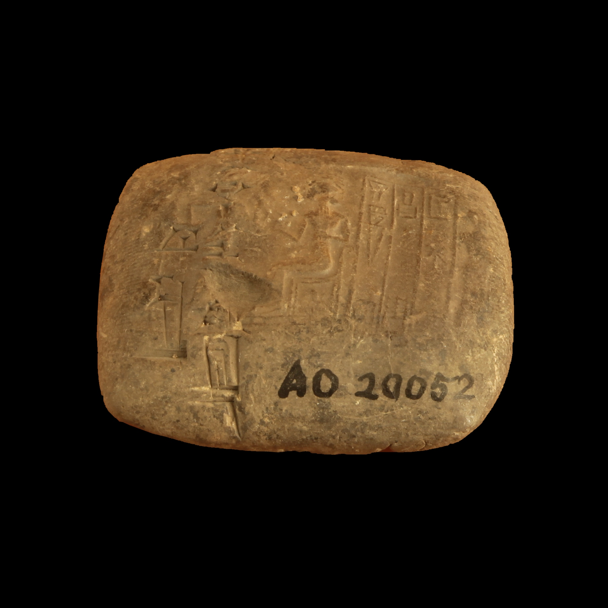 Accounts for daily salaries sealed by a high civil servant named Ur-Shara